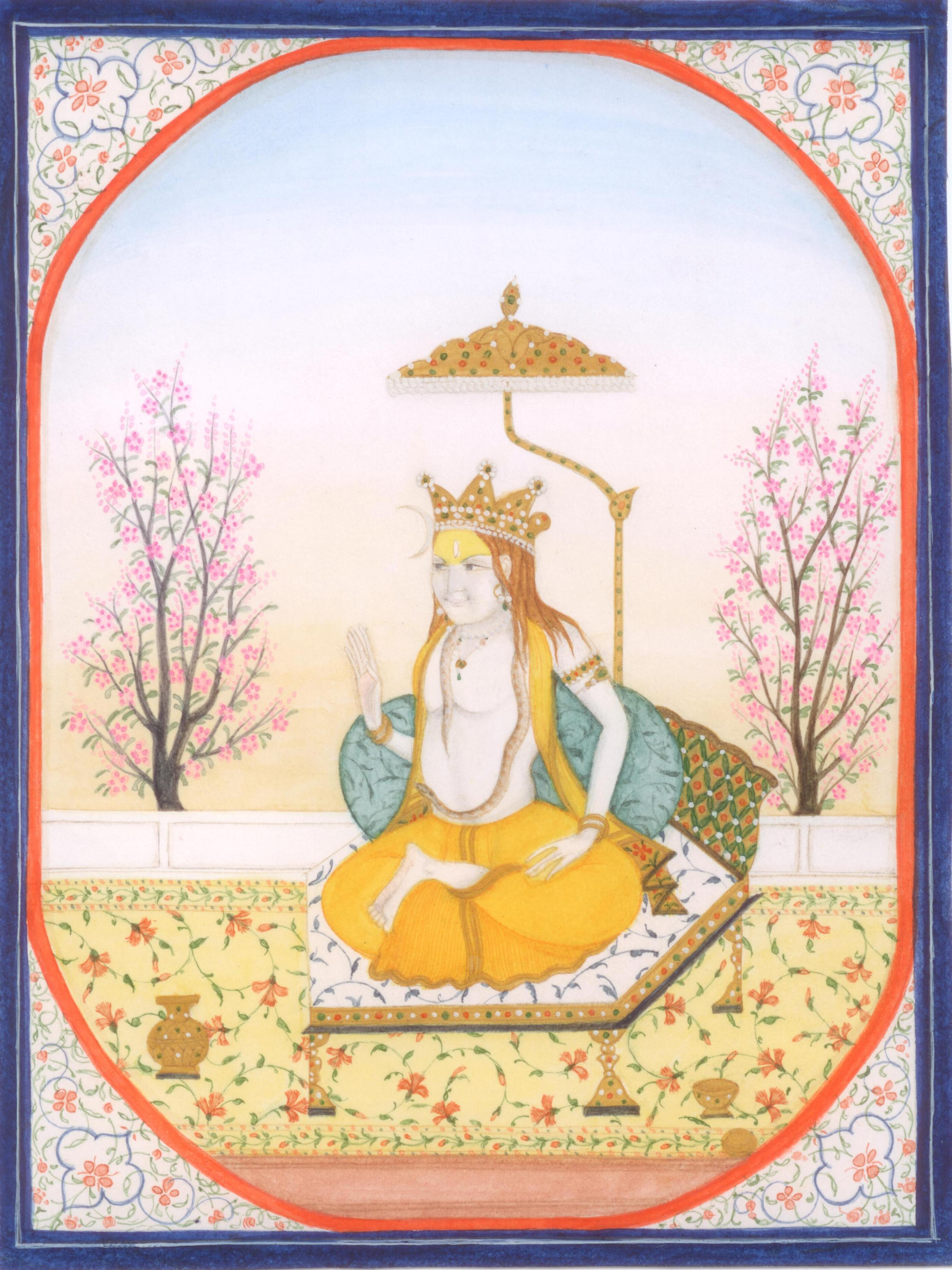 I painted this miniature in the year 2010. It depicts a regal figure ( modeled after Shiva) seated on a throne, amid lavish surroundings. The miniature follows the Pahari school of painting ( mainly Kangra, Guler and Garhwal). The colors are part-gouache, part-vegetable. Gum Arabic was used as a binder. The painting was burnished with agate to impart a smooth,jewel-like finish.